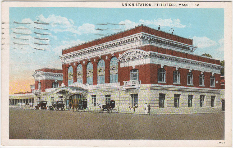 1928 postcard of Union Station in Pittsfield, Massachusetts